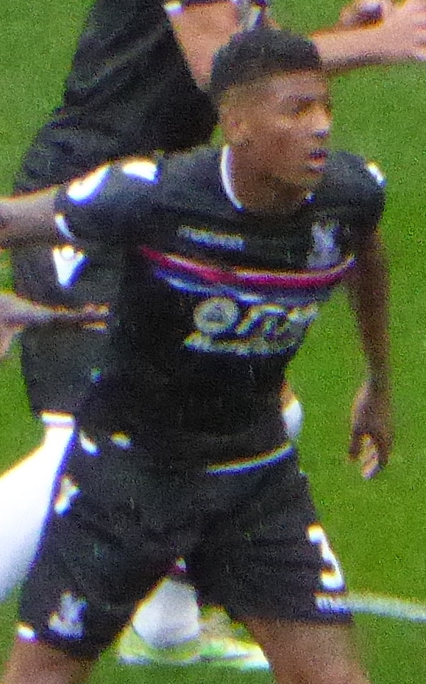 Manchester United v Crystal Palace (4-0), Premier League, Old Trafford, Manchester, Greater Manchester, England, 30 September 2017